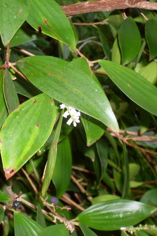 Trochocarpa laurina growing at Elvina Bay, Australia